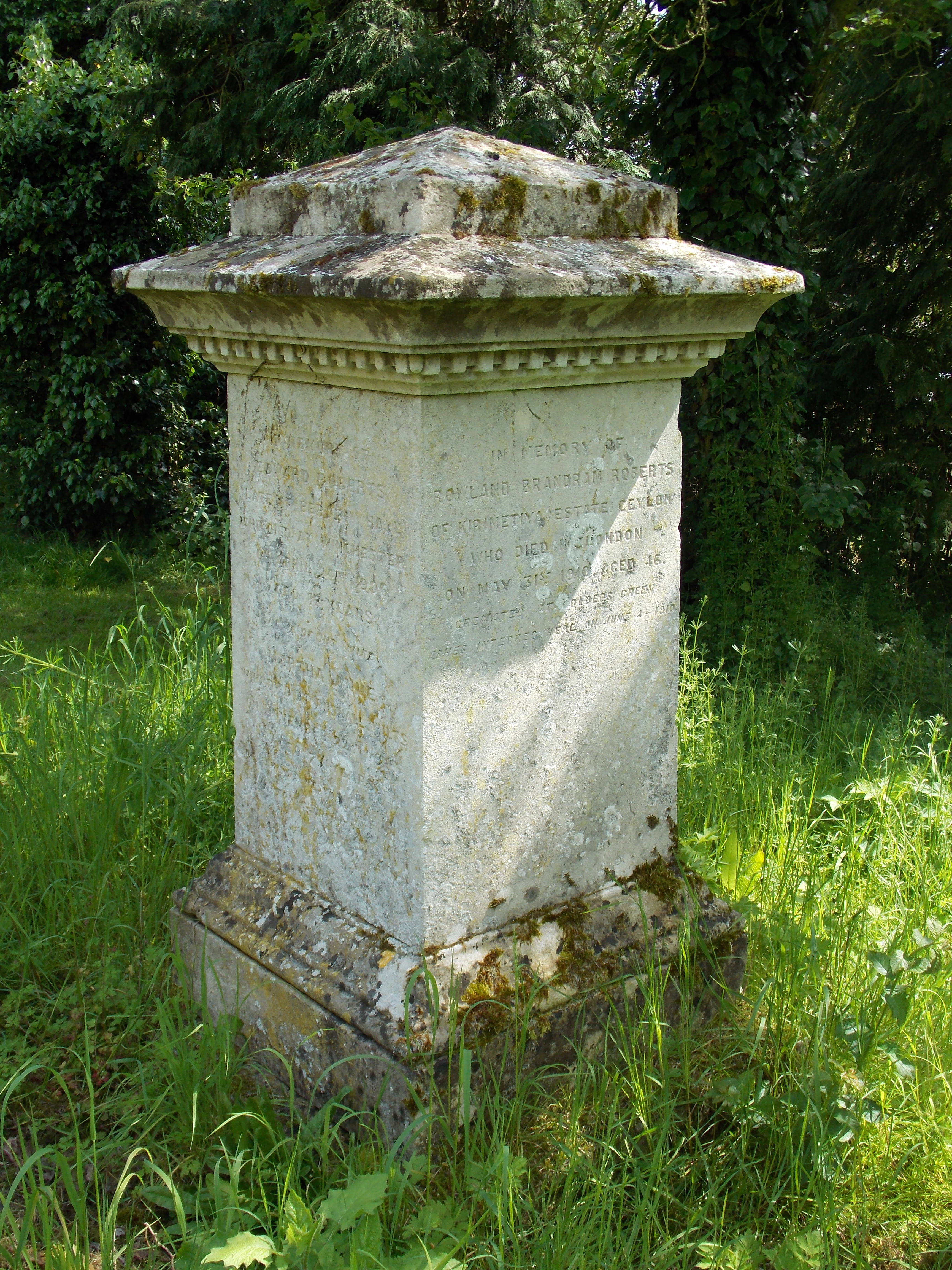 Berden St Nicholas churchyard tomb to the Roberts' family